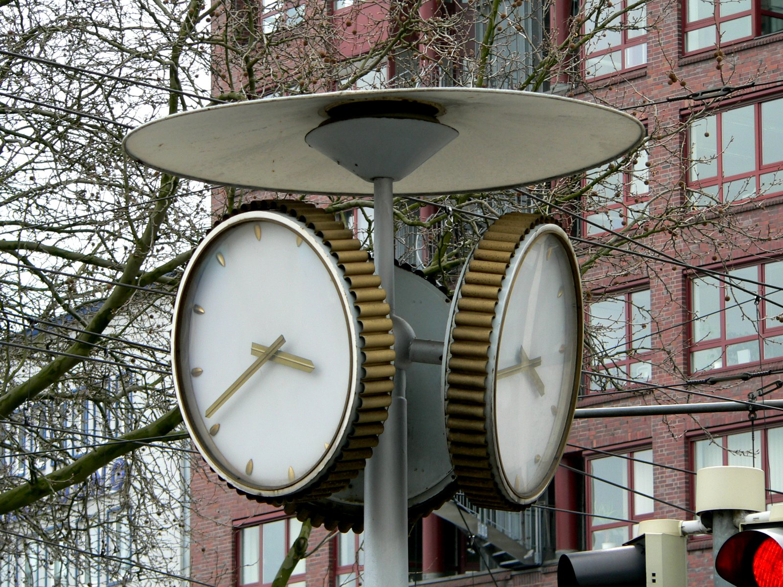 clock at the Steintor in Hannover, Germany; Uhr am Steintor in Hannover